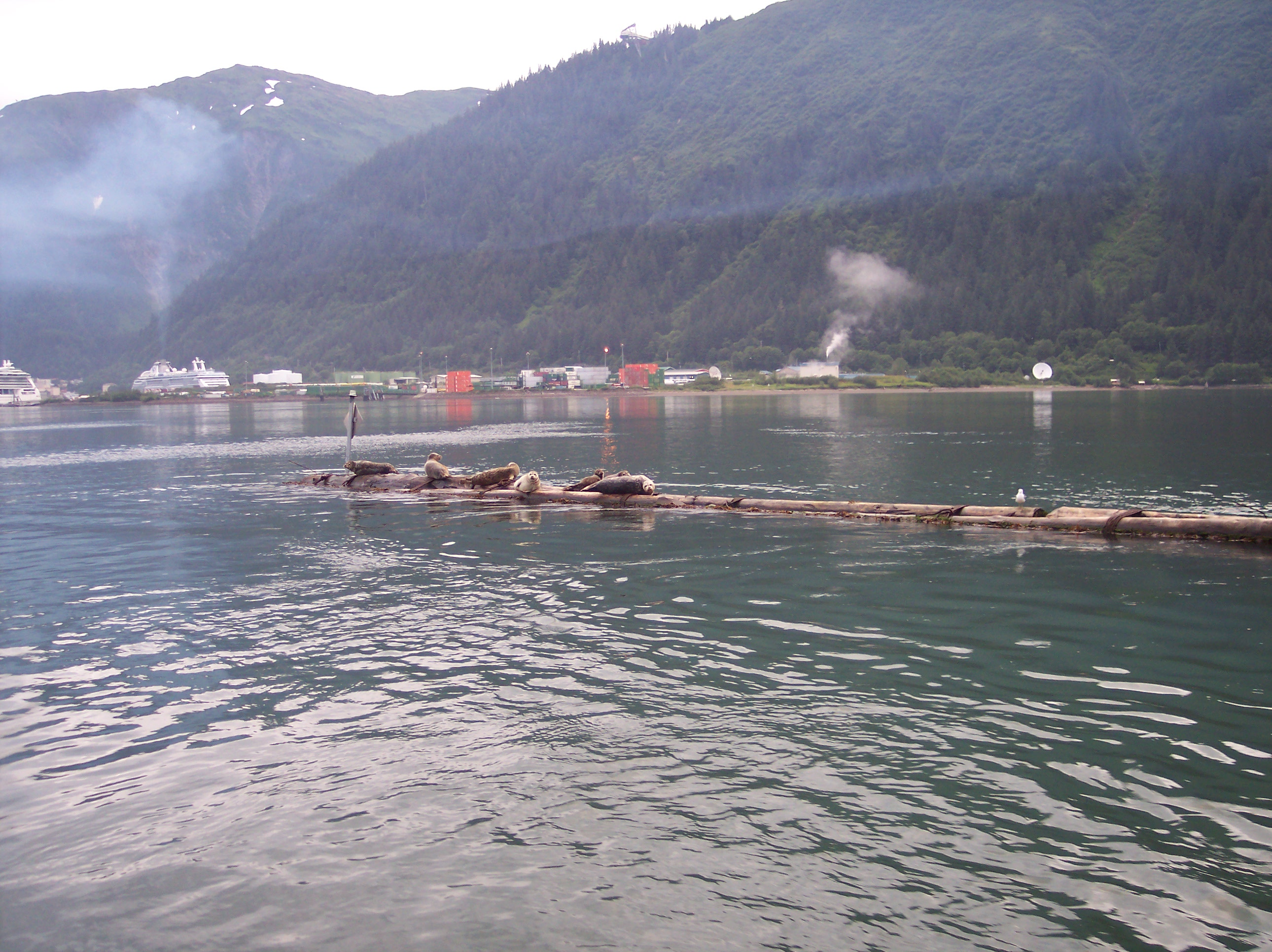 Harbor seals on the floating breakwater of the Douglas Harbor in Juneau, Alaska. Several cruise ships in the background are leaving a thick haze of exhaust over downtown, extending down the channel.